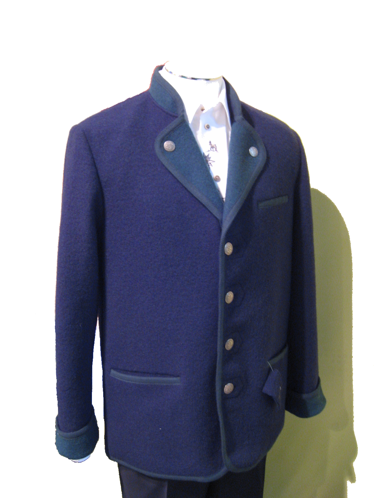 Tracht from Trient. Taken at an exhibition in Florence showcasing the culture of Trentino.